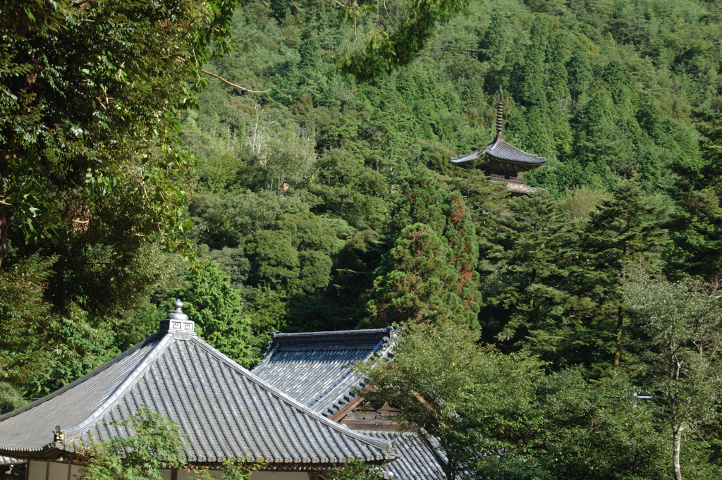 Fukushoji Buddhist temple in Bizen, Okayama, Japan